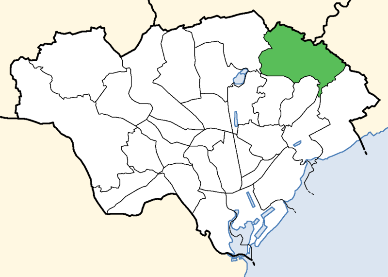 Location map showing electoral ward of Pontprennau & Old St Mellons within Cardiff, Wales